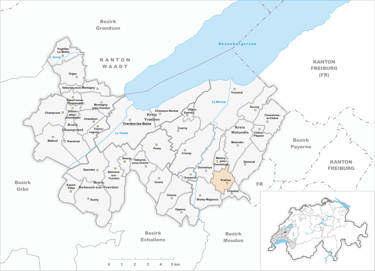 Municipality Prahins